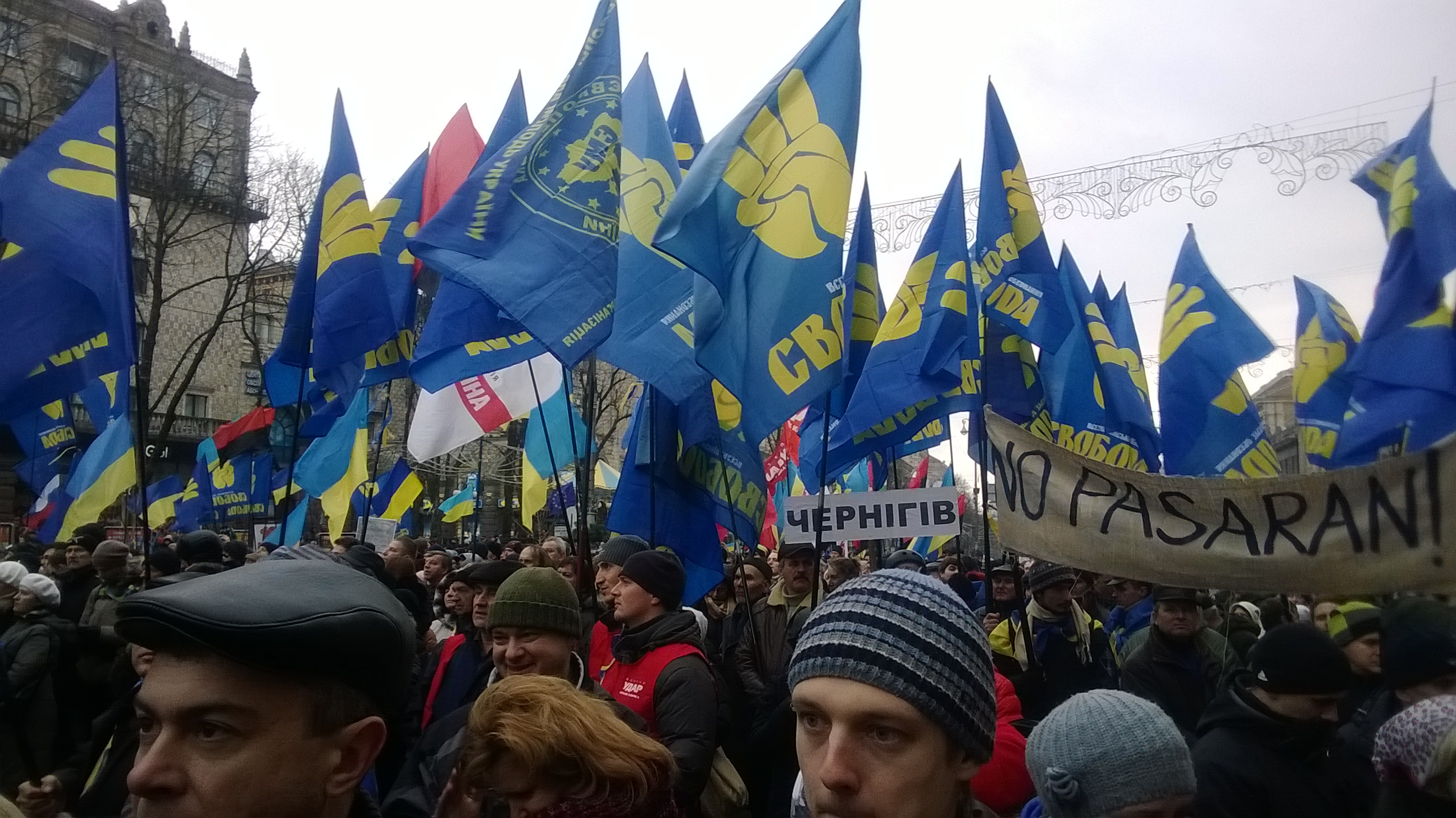 ¡No pasaran!